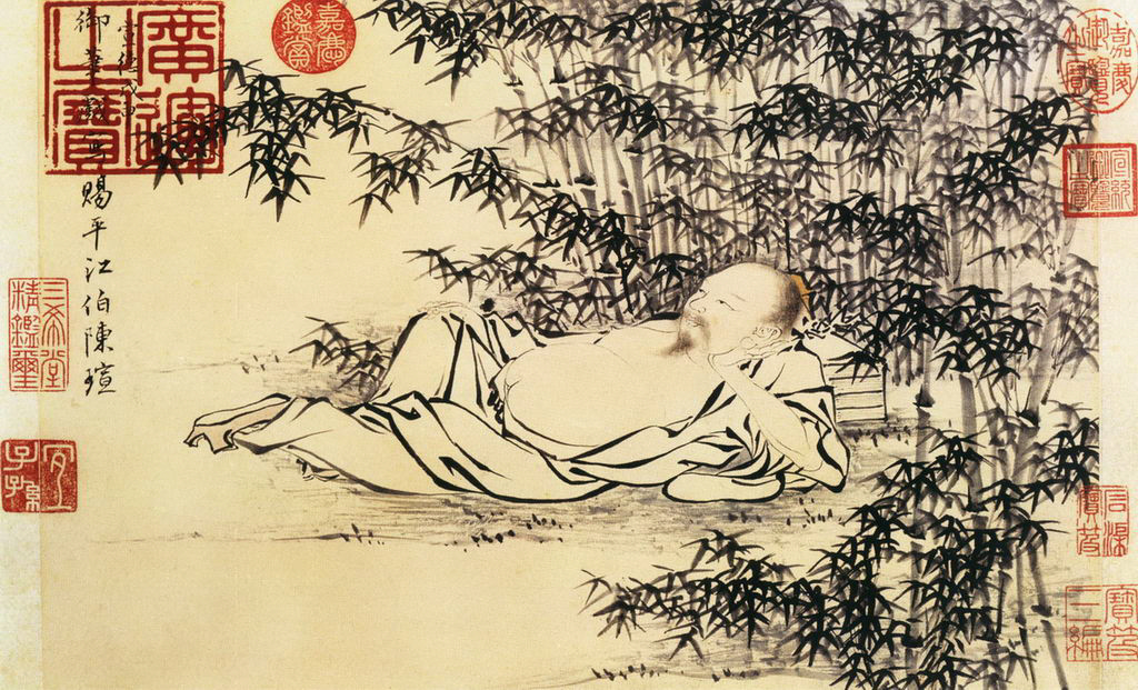 Man in Bamboo Forest. Ink on a paper, 27.7 × 40.5 cm. Located at the Palace Museum.